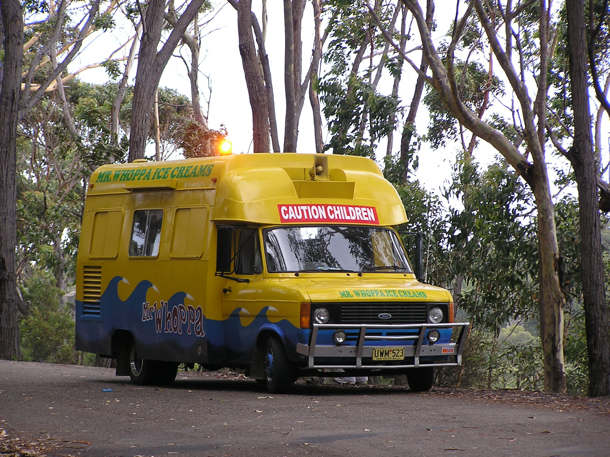 An icecream van at Batemans Bay, New South Wales, Australia, January 2006. Picture taken by AYArktos